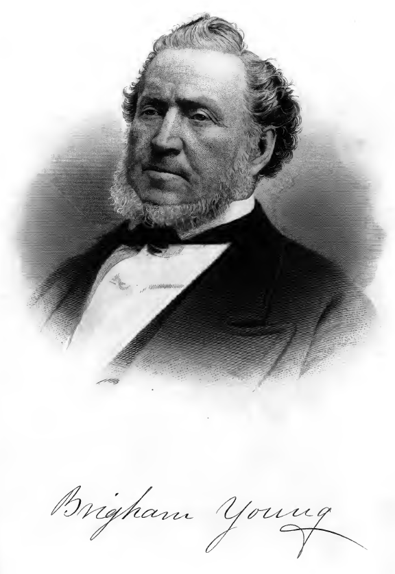 Steel-plate engraving of Brigham Young in The Rocky Mountain Saints.